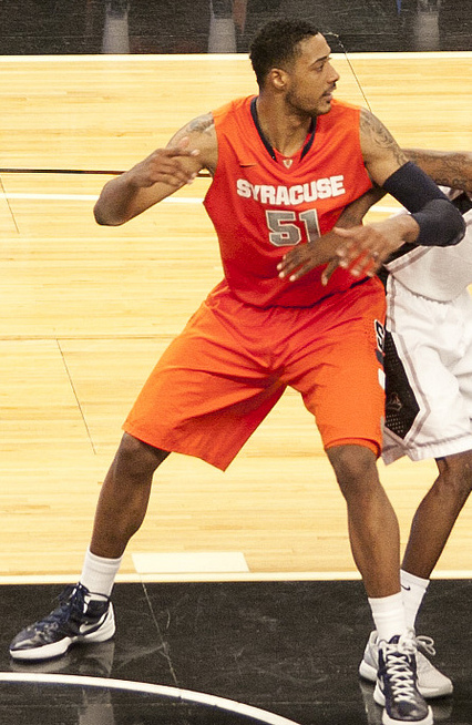 Fab Melo of the Syracuse Orange posting up against Providence